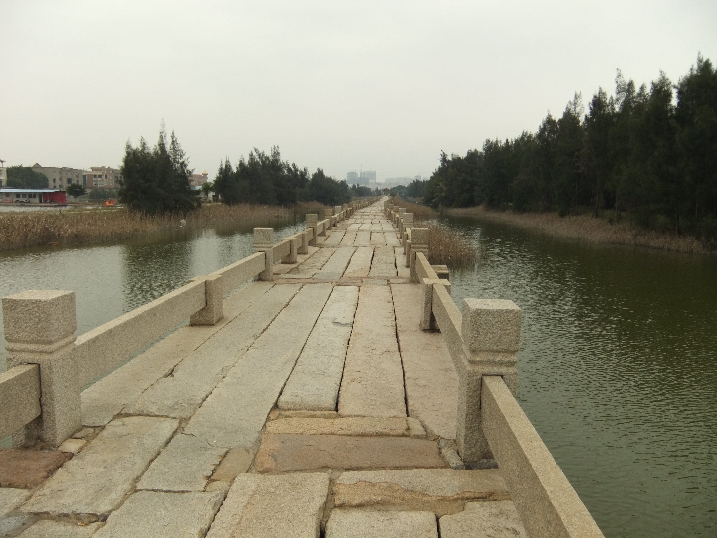 The eastern part of the Anping Bridge, between the Shuixin Zen Temple and the Shuixin Pavilion.